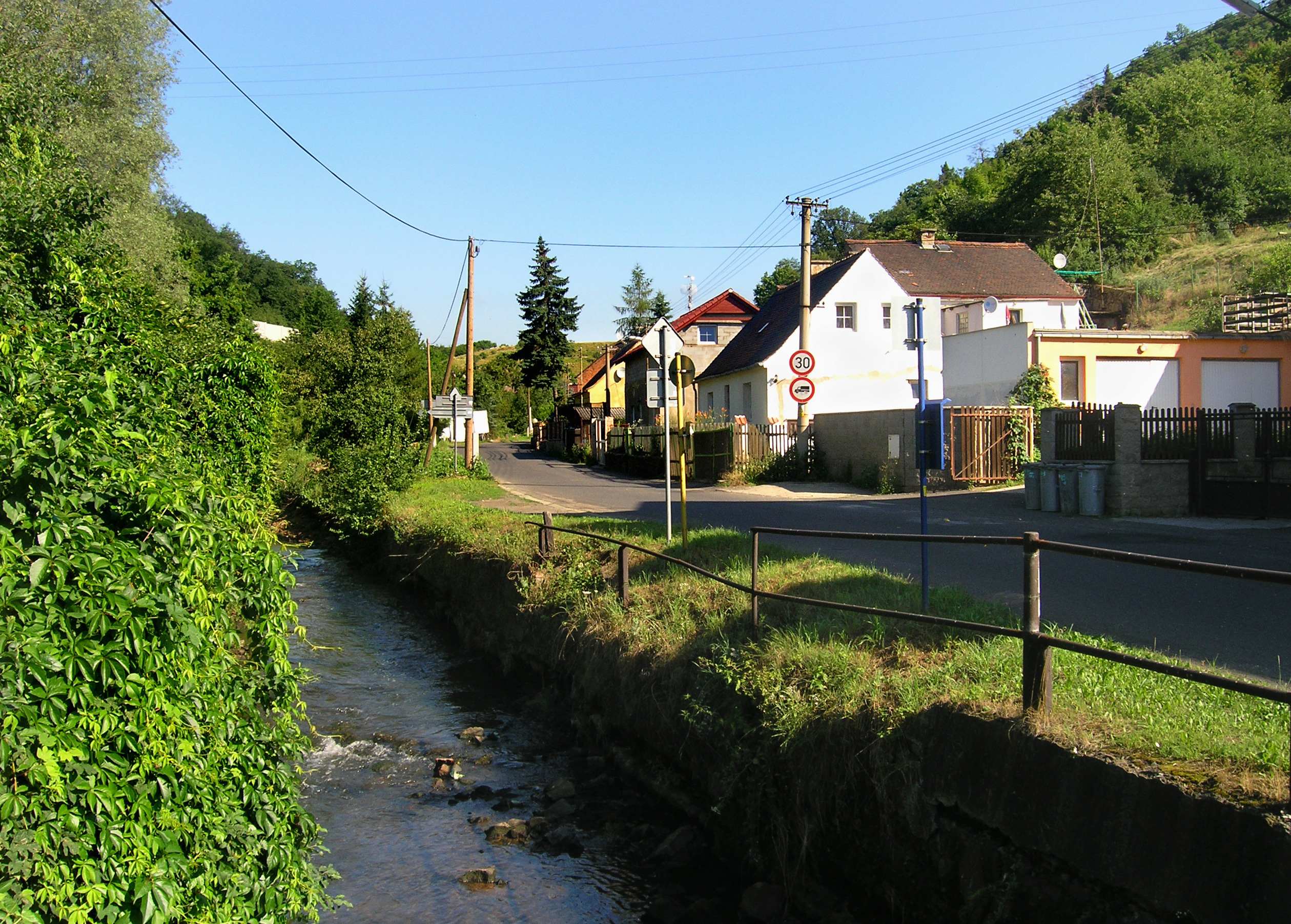 Bystřice creek in Kozlíky, part of Rtyně nad Bílinou village, Czech Republic